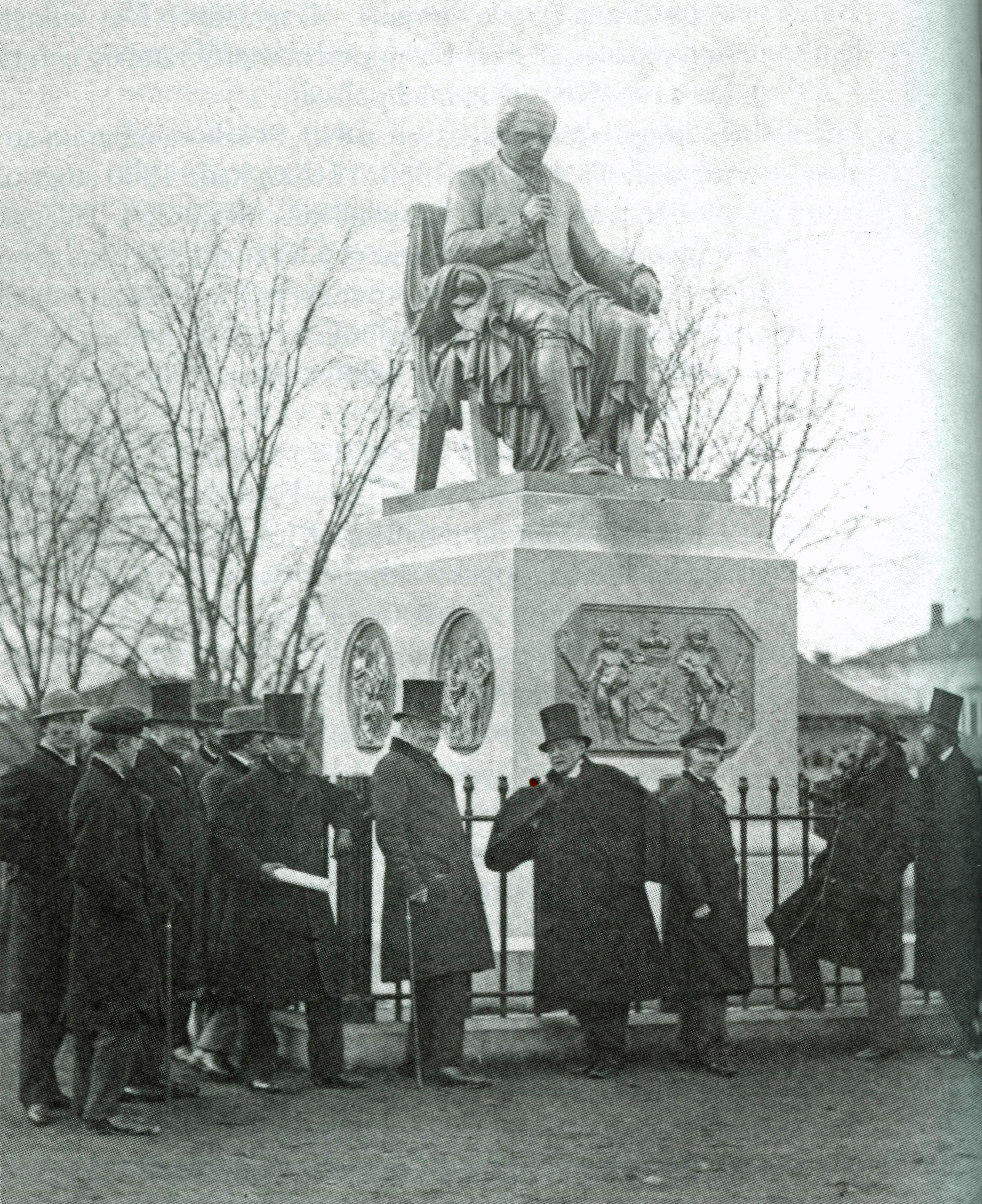 The statue of Henrik Gabriel Porthan in Turku is unveiled September 9, 1864.